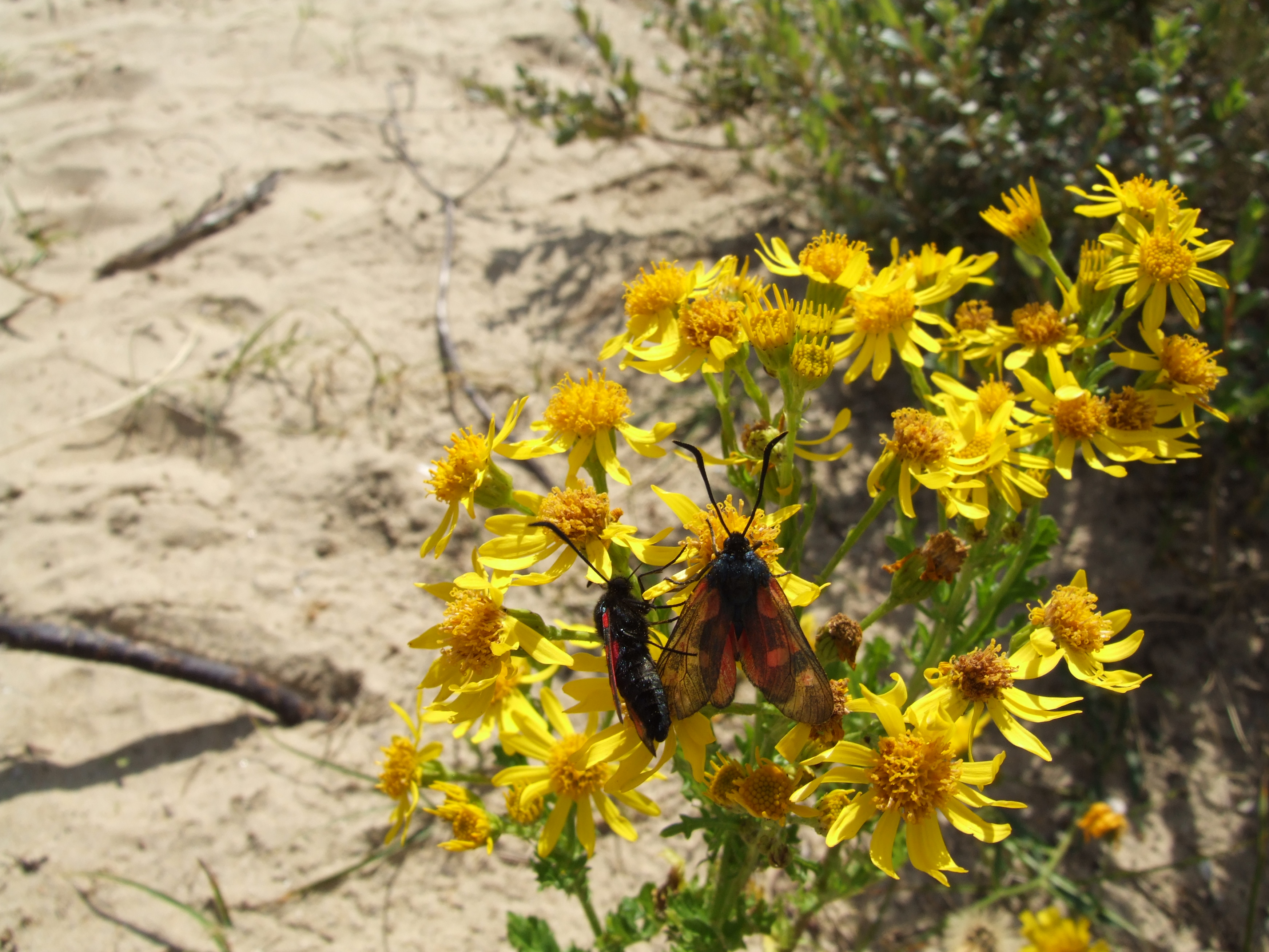 Jacobaea vulgaris, syn. Senecio jacobaea at Dune du Perroquet, Bray-Dunes, France